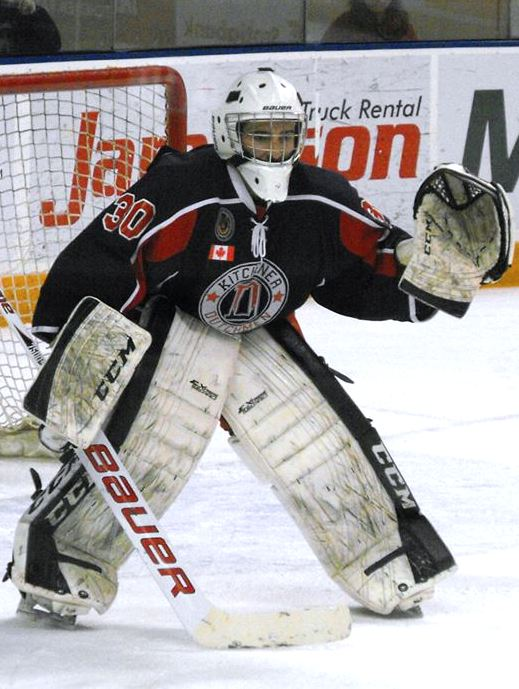 This photo was taken by Devan Mighton during the 2013-14 GOJHL season.